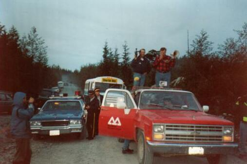 The loggers and the police have arrived. MacMillan Bloedel staff reads the court injunction to leave the road.